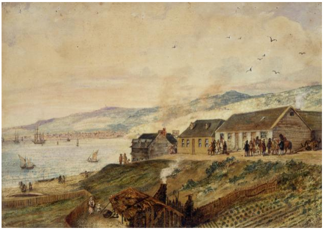 Shows The Thistle Inn and the Courthouse (which doubled as a church) on lower Mulgrave Street, close to the water's edge. There is a horseman, with lawyers and other people outside the courthouse. A European home with two chimneys is below the road on the left. New Zealand Historic Places Trust Register number 1439.